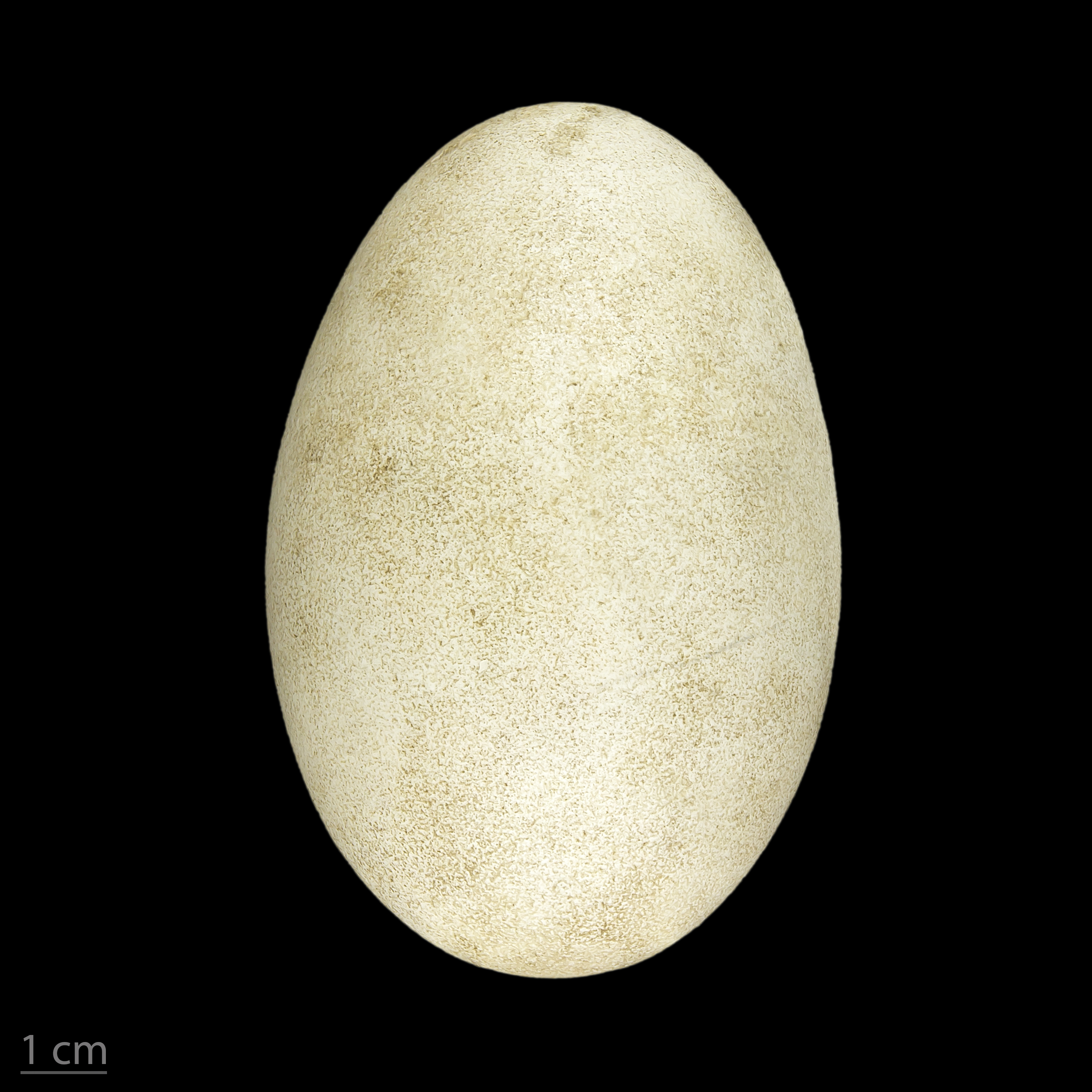 Egg of swan goose Collection of Jacques Perrin de Brichambaut.